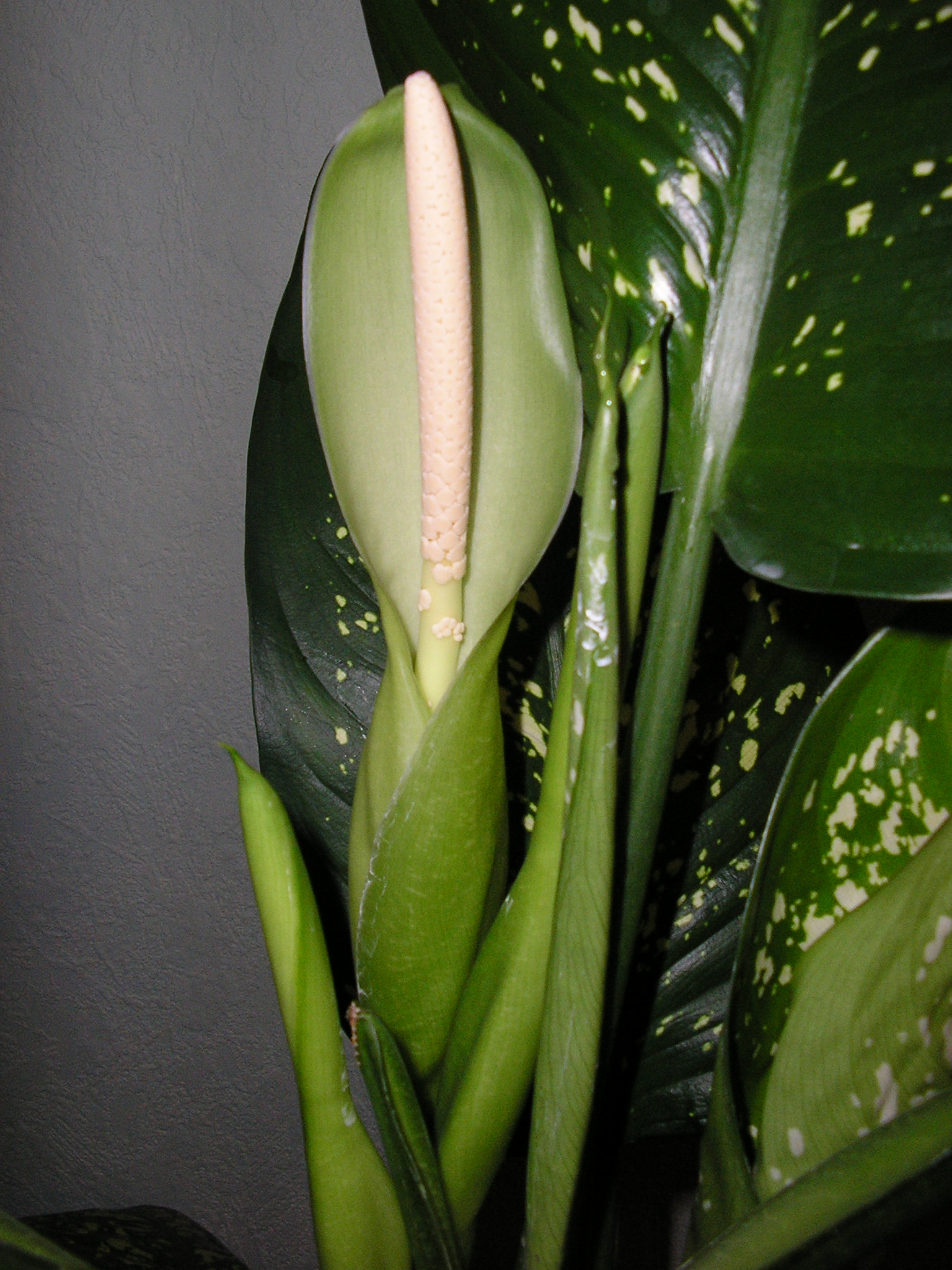 The inflorescence of Dieffenbachia sp.